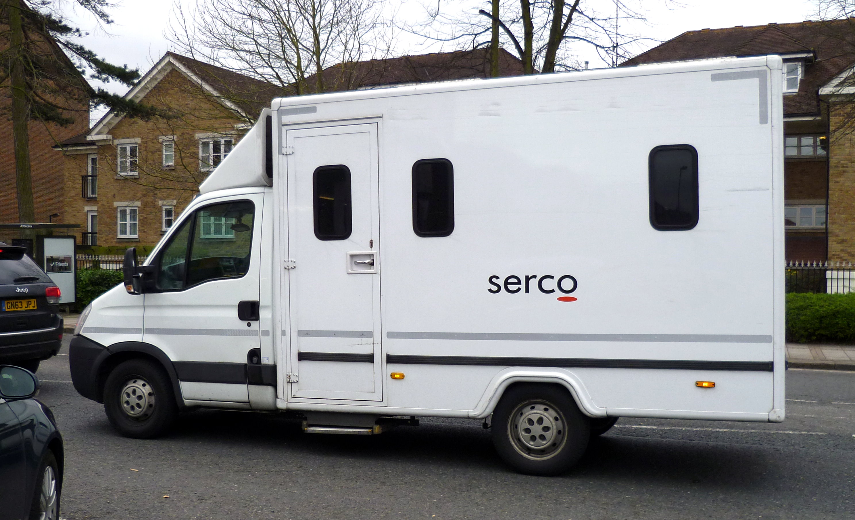 Serco van.